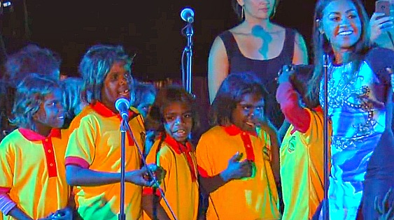 Jessica Mauboy performs "Ngarra Burra Ferra" at the 2013 Mbantua Festival with students from the aboriginal Yiprinya State Primary School, of which she is the official ambassador.